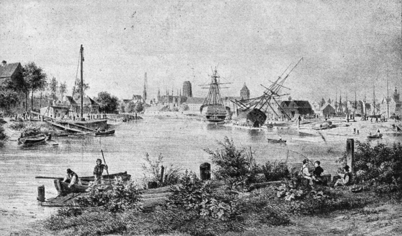 Gdańsk & the Motława river, Poland.